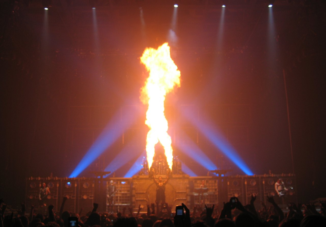 This is the song Rammstein.